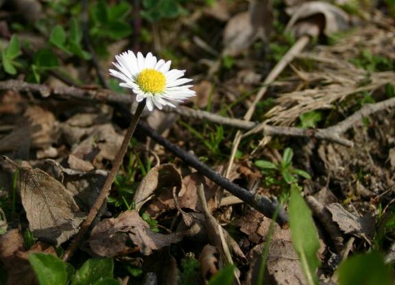 Bellis perennis: Early flower.